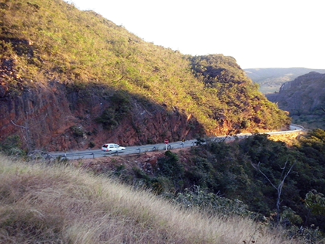 MG-010 in the Serra do Cipó, in Santana do Riacho, Minas Gerais, Brazil.